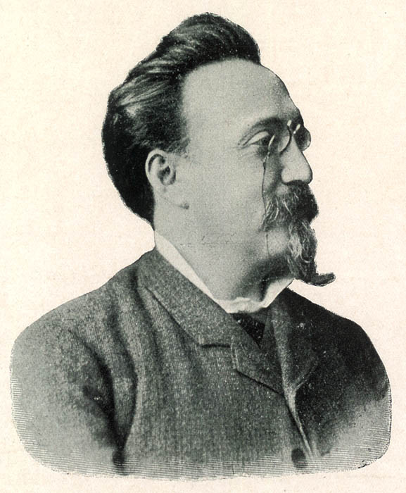 Picture of Portuguese president Manuel de Arriaga.